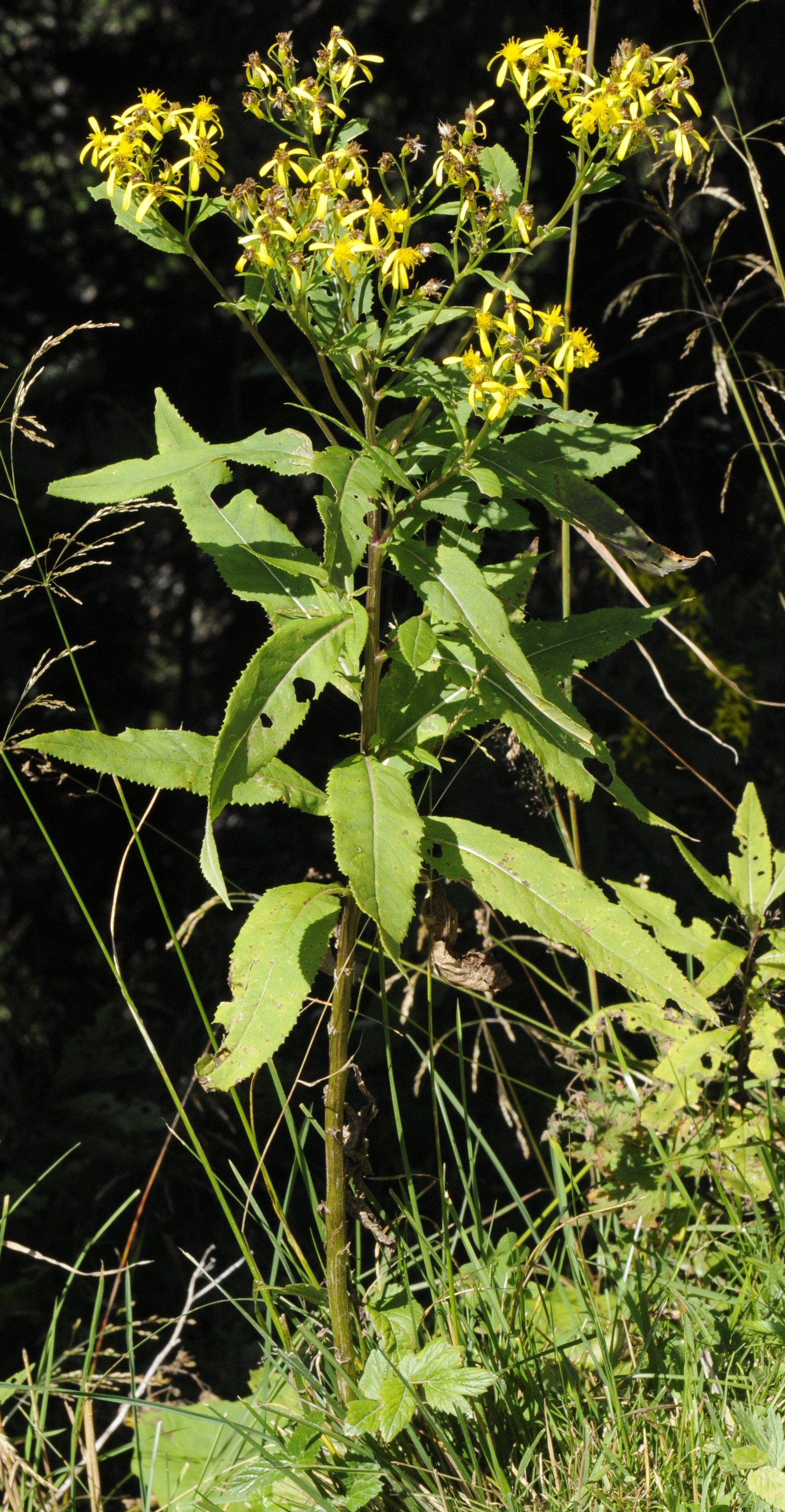 Detail of Senecio ovatus